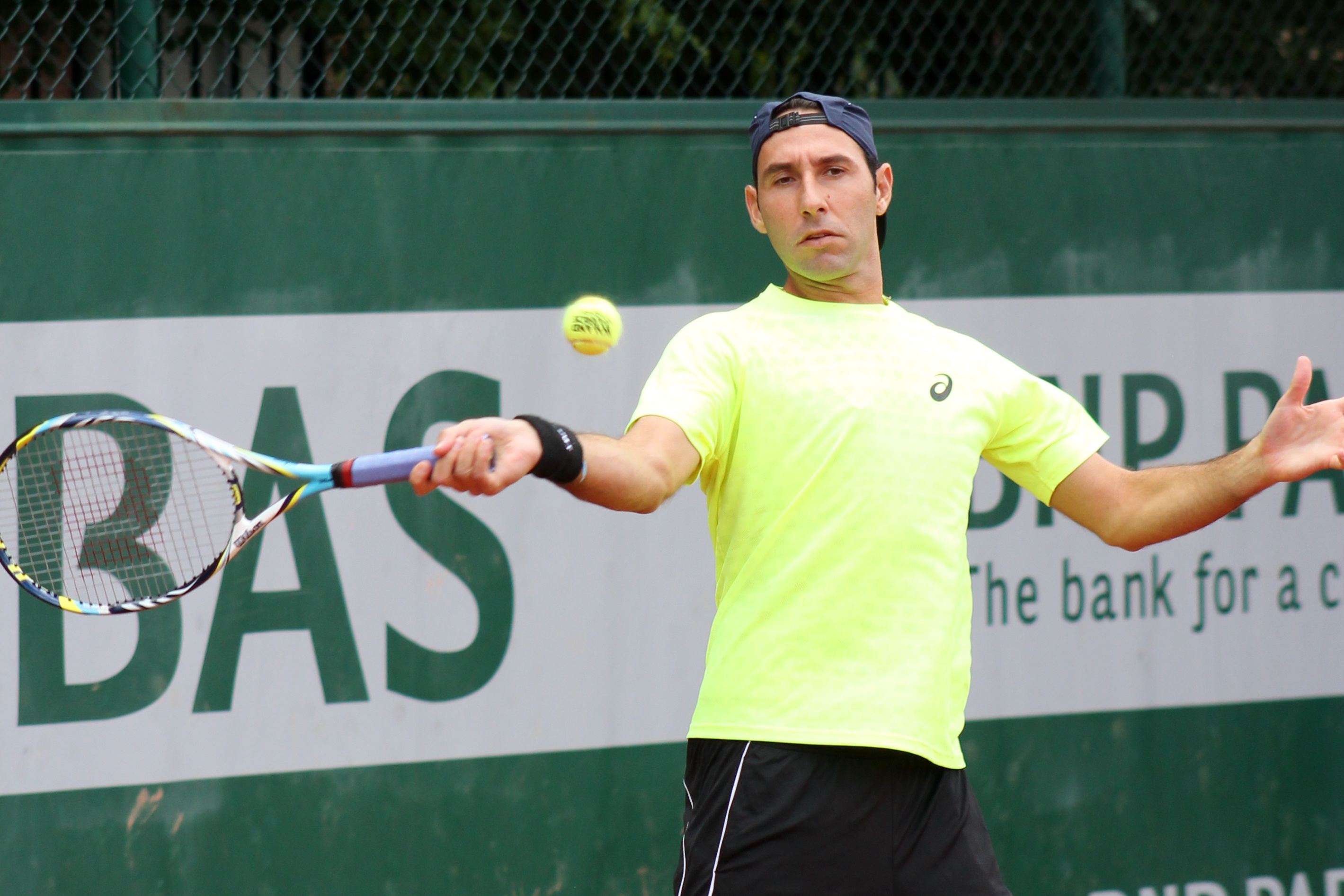 Santiago Gonzalez playing at Roland Garros 2013